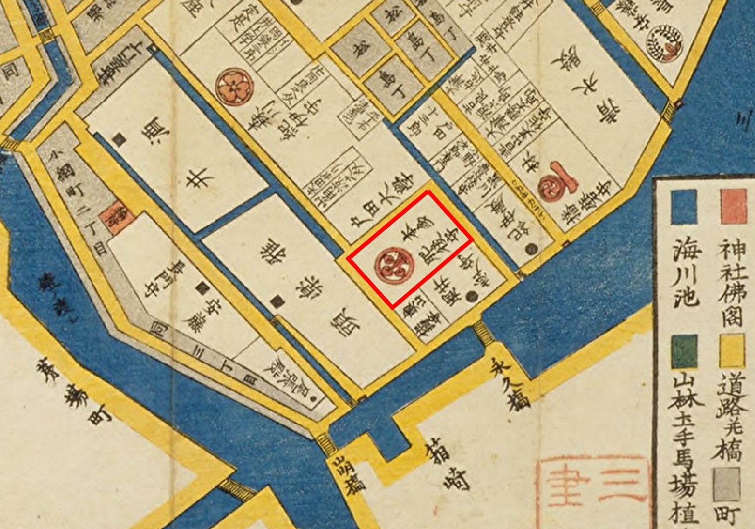 Residence Honda d clan at Edo